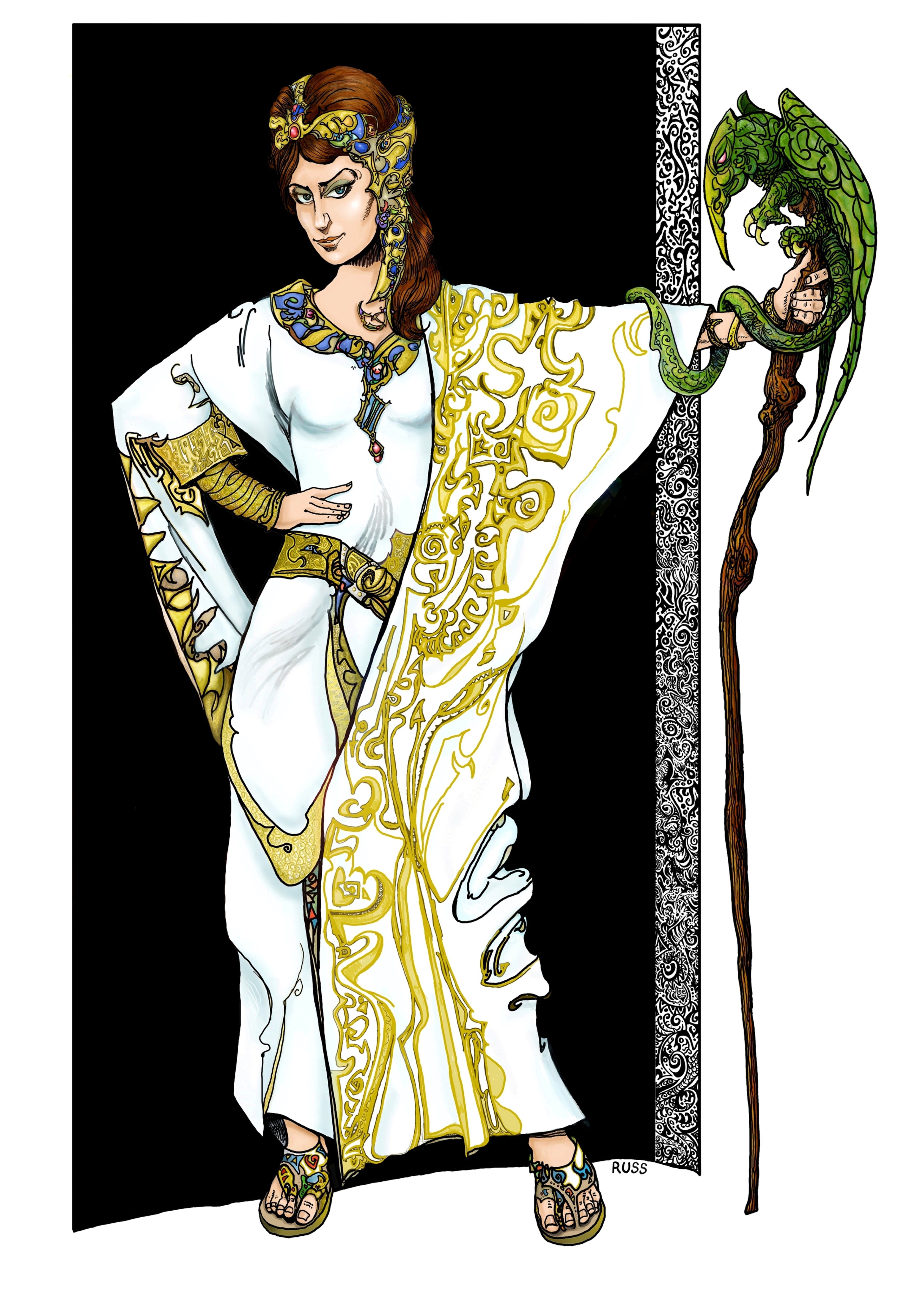 Illustration of a sorceress